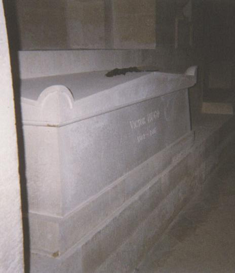 Tomb of Victor Hugo (1802-1885) in the Panthéon, Paris, France.